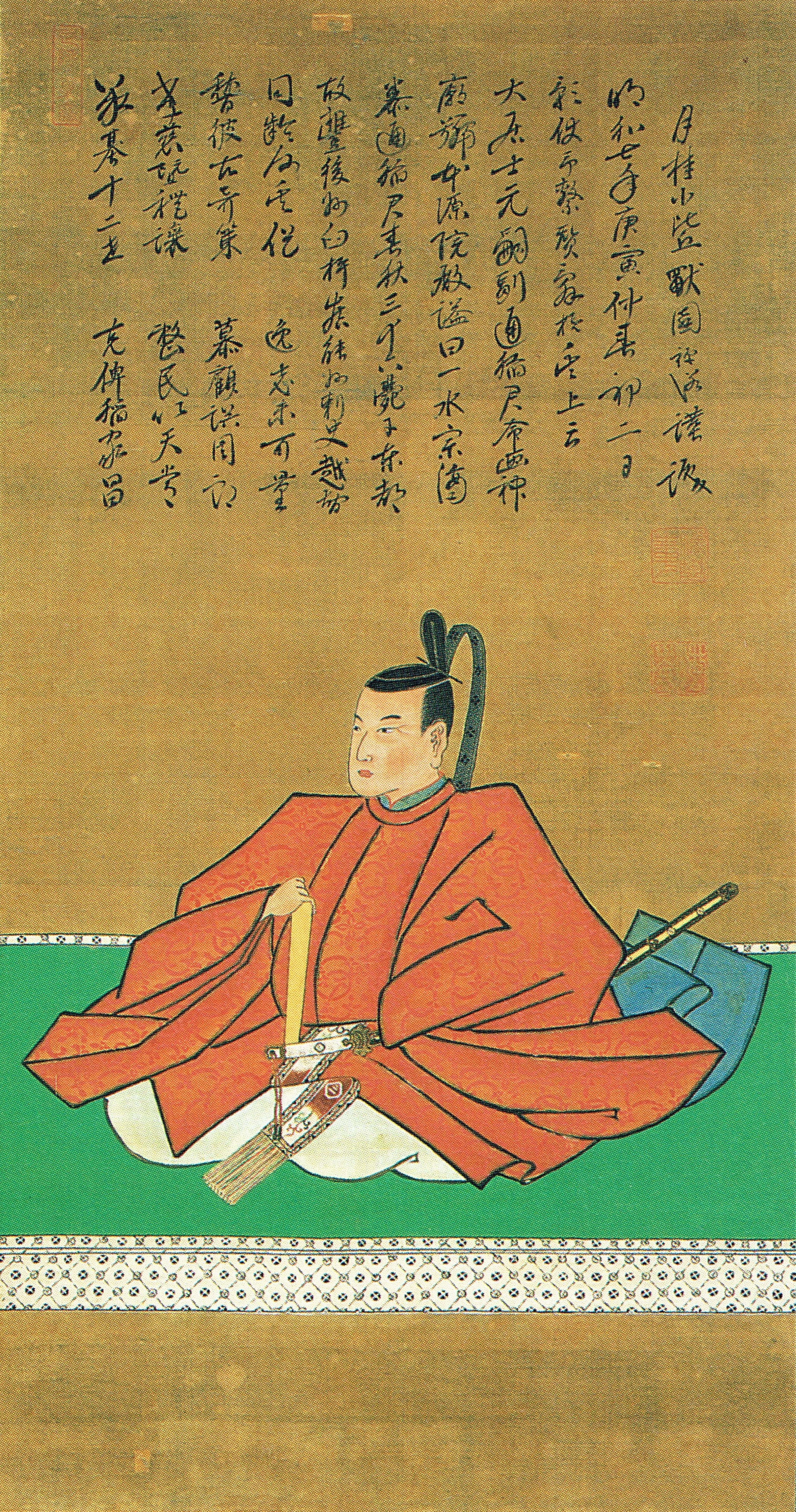 Portrait of Inaba Yasumichi, owned by Gekkei-ji Temple in Usuki, Oita, Japan